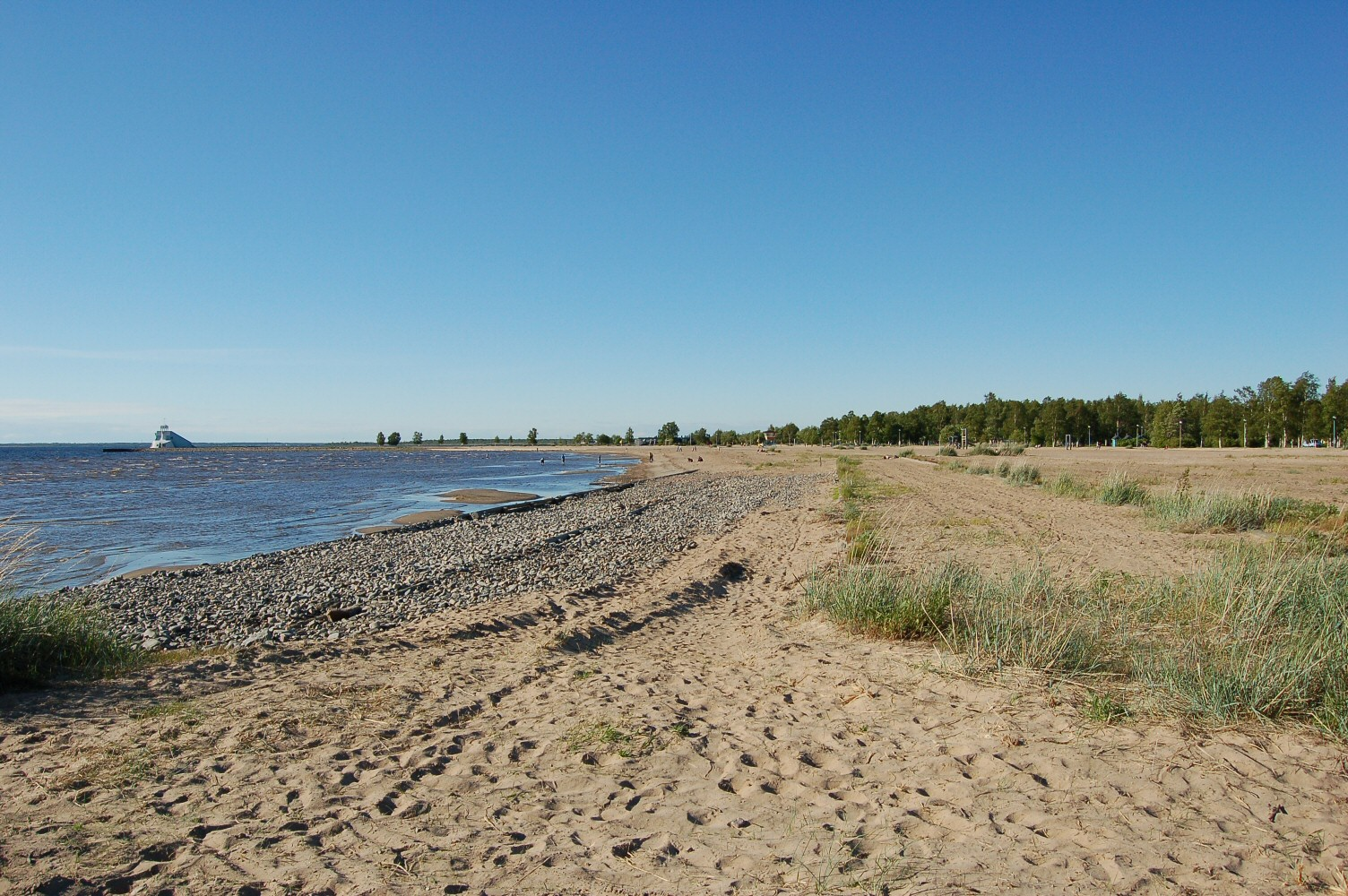 Nallikari sand beach, Oulu, Finland.